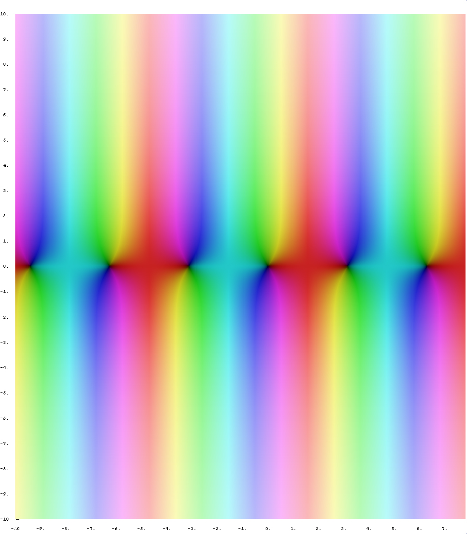 function Sin[z] in the complex plane